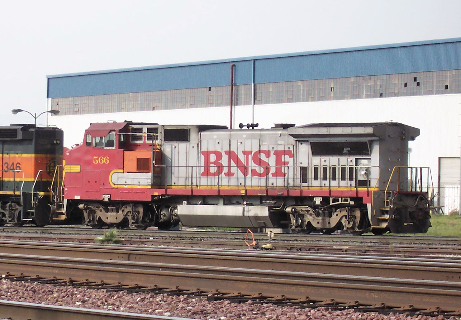 GE Dash 8-40BW locomotive, BNSF Railway #566.